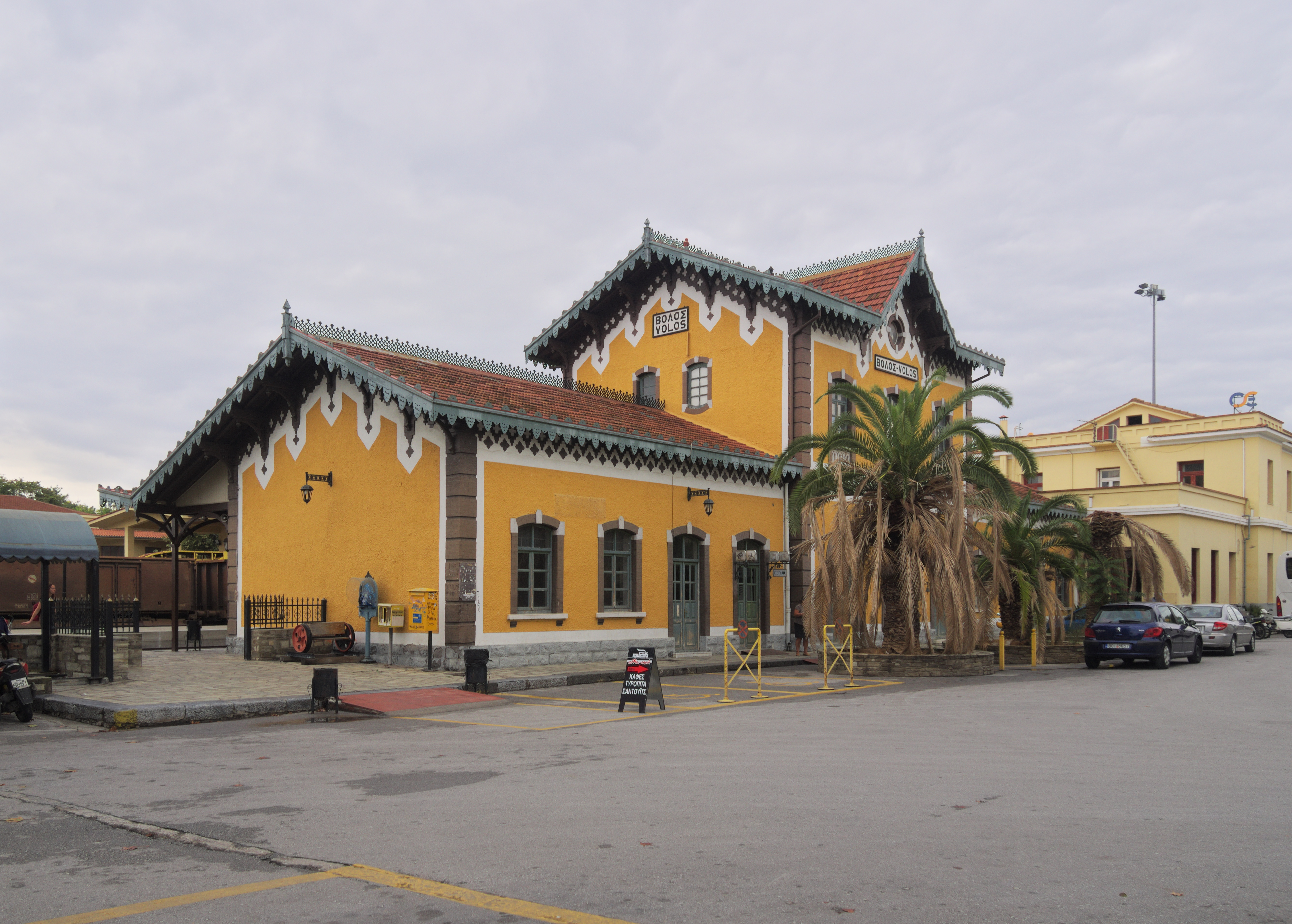 View of Volos train station from the parking lot.